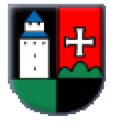 Coat of arms of the municipality of San Martin de Tor, South Tyrol.